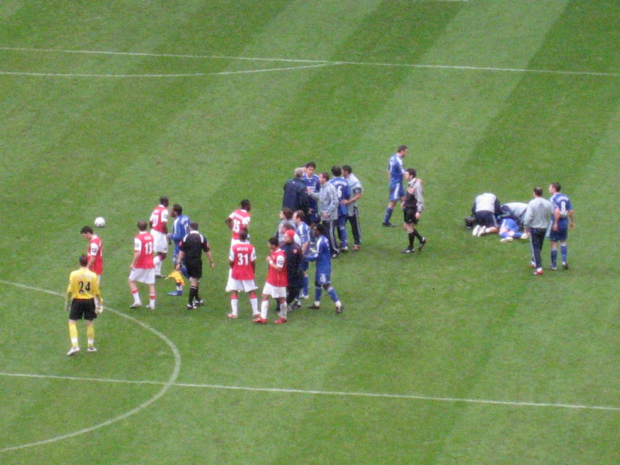 A bust up between the Chelsea and Arsenal players during the 2007 Football League Cup final, Millennium Stadium on 25 February.